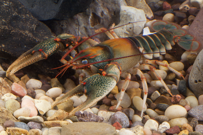 This crayfish that occurs in parts of Alabama, Georgia and Mississippi was under evaluation for possible listing as a threatened or endangered species. Thanks to research funded by the USFWS, it has been determined that this species does not need to be protected under the Endangered Species Act. This type of proactive research saves taxpayers hundreds of thousands of dollars! Credit: Guenter Schuster, Eastern Kentucky University (retired)